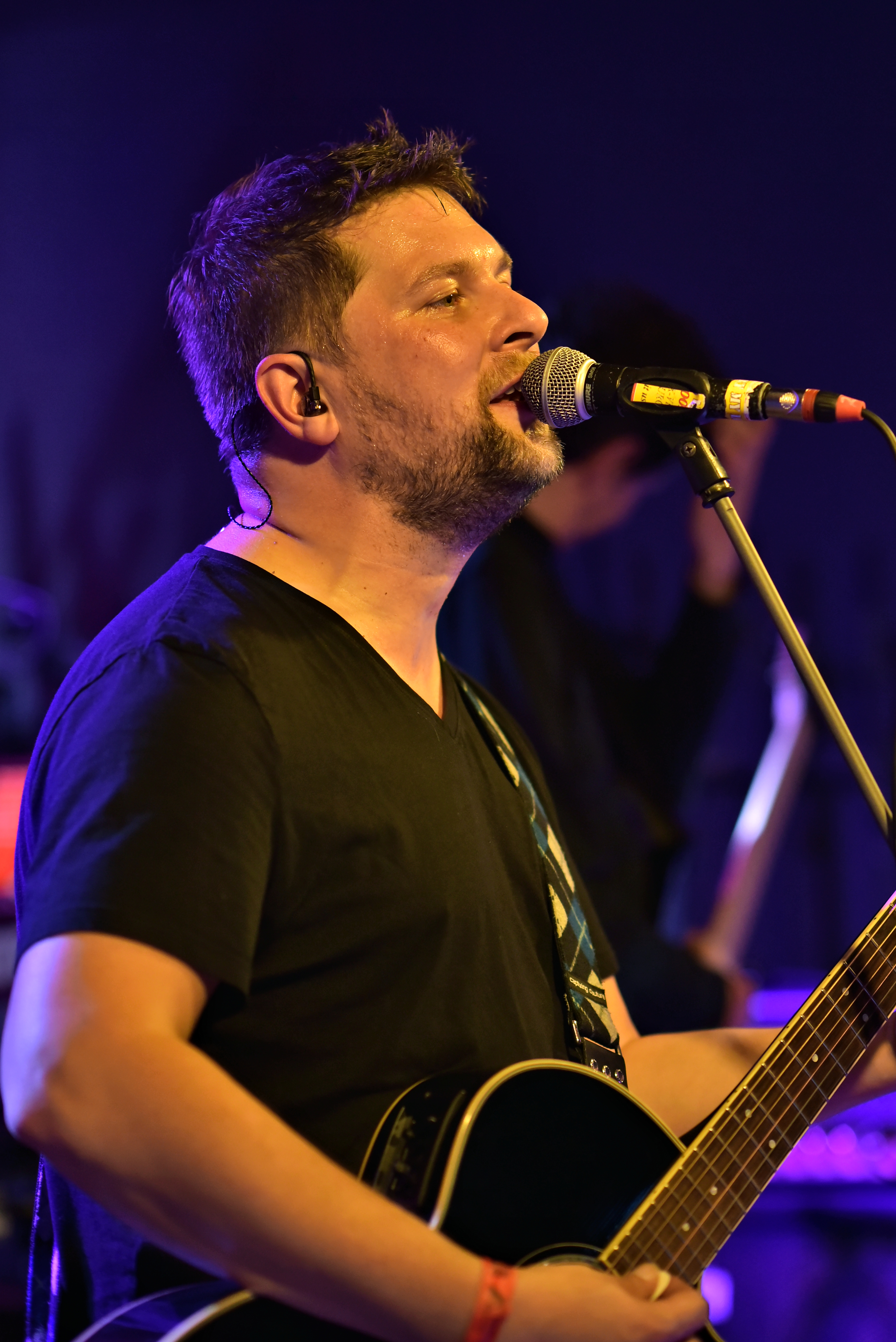 Release party for the album "Endlose Straßen" by Dennis Brandau. Marias Ballroom Hamburg-Harburg 30. Oct. 2019